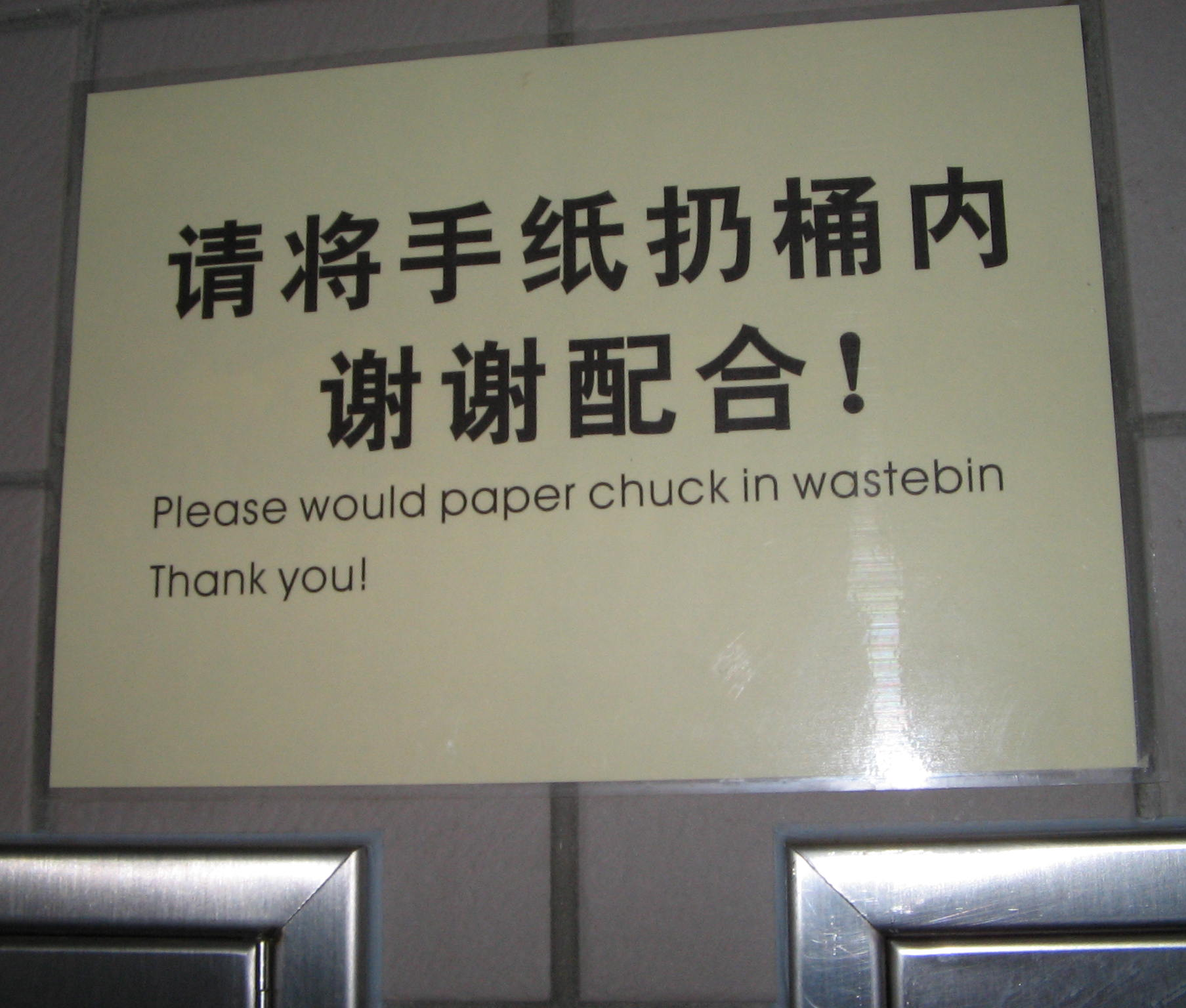 Sign in a toilet in Shanghai, 2005